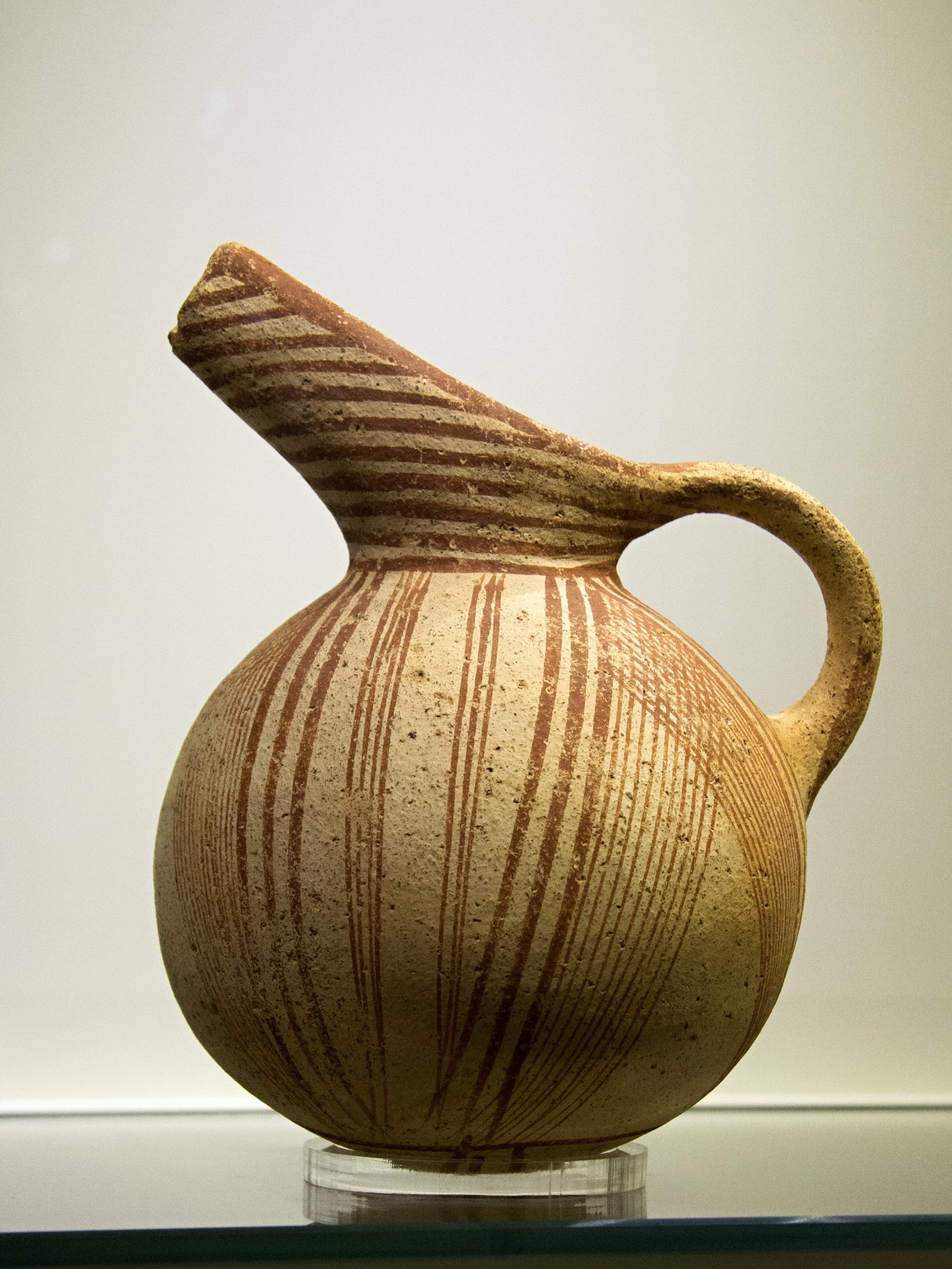 Rounded jug with typical red-brownish painted decoration of converging diagonal lines, cross ended at the bottom of the pot. Hagios Onouphrios, 2600 - 1900 BC. Archaeological Museum of Heraklion.